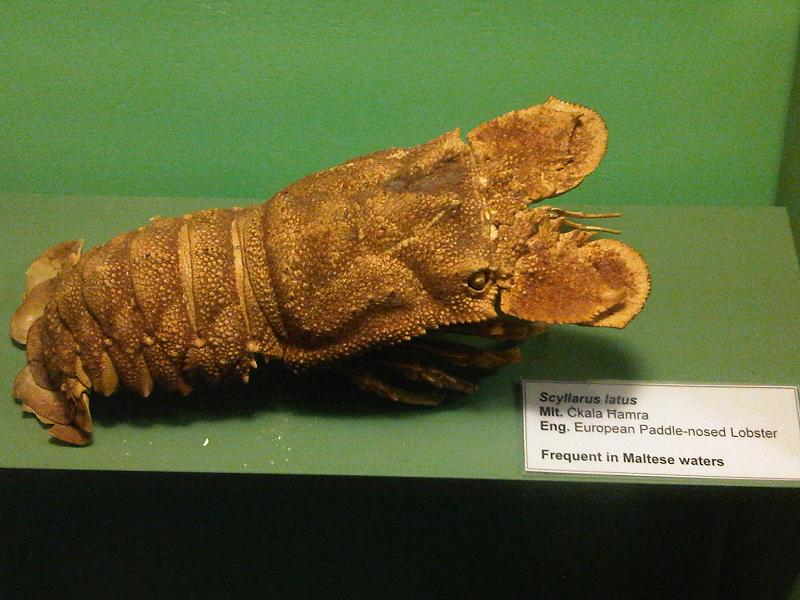 Scyllarides latus at the National Museum of Natural History, Vilhena Palace, Republic of Malta.